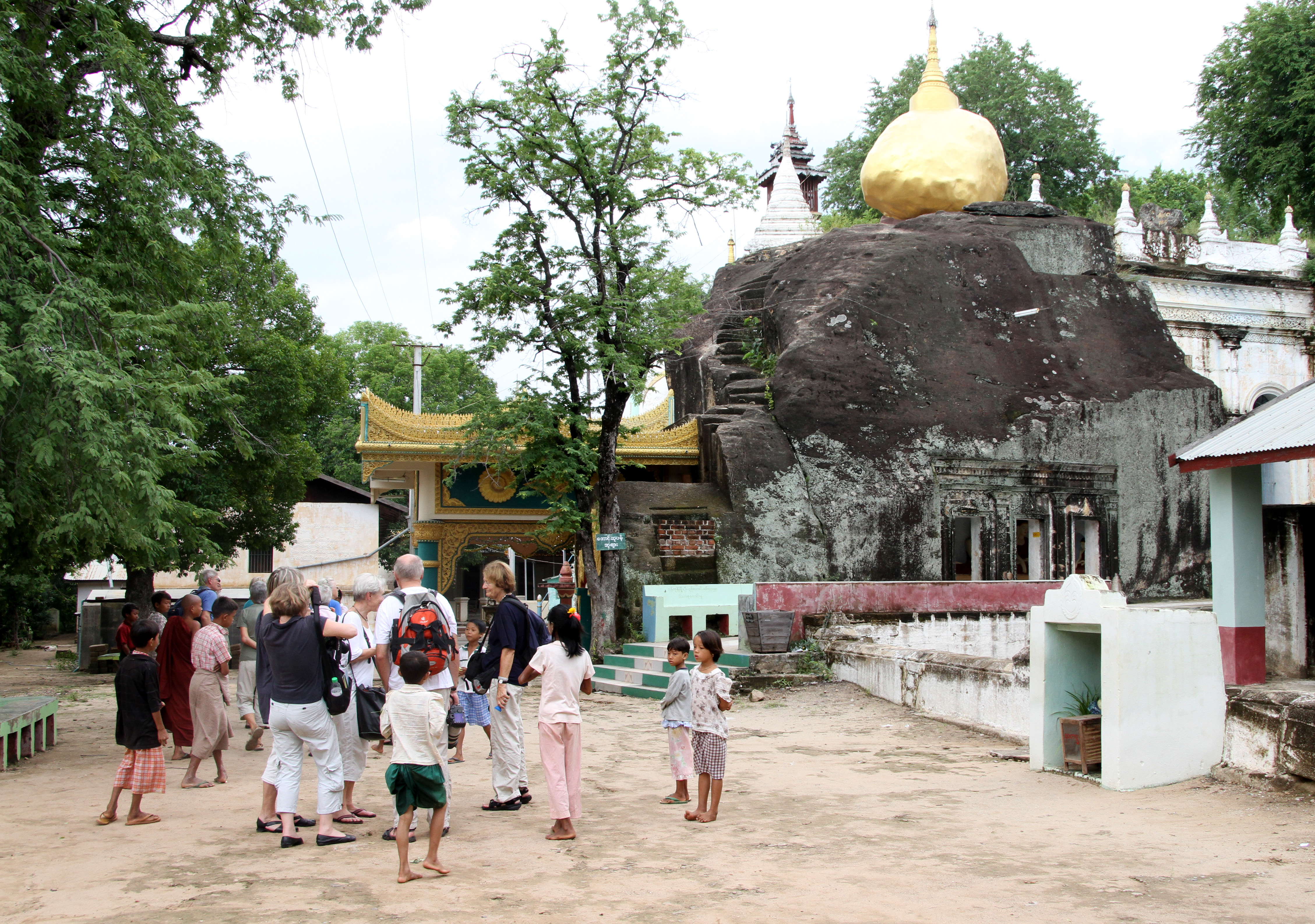 Shwe Ba caves in Monywa in Myanmar